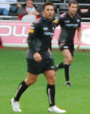 Ospreys vs Harlequins